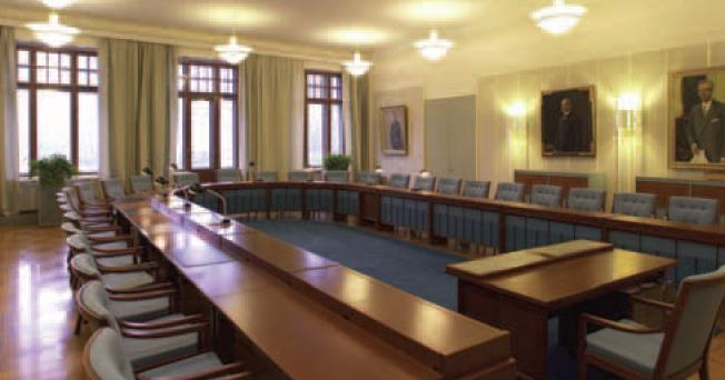 The plenary hall of the Supreme Adminstrative Court of Finland